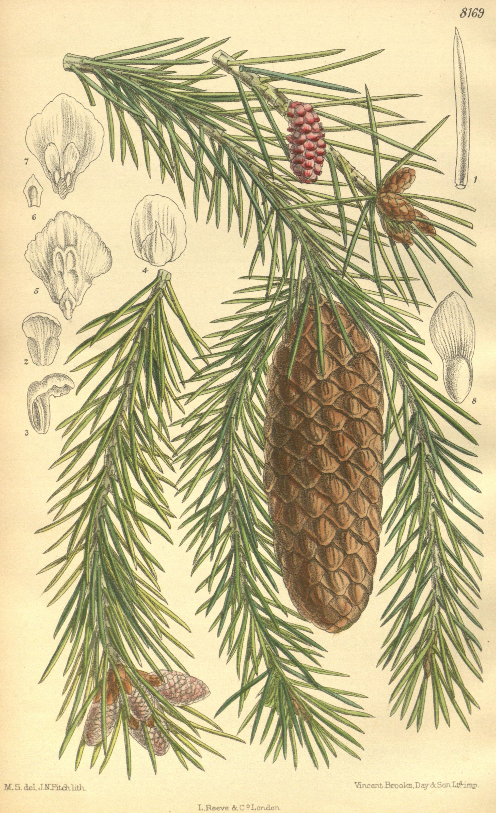 8169 M.S.dfiLJ.N-.Htdvliih- Vinrent Brooks . D ay A Son Lt£xmp . L.Reeve 6c C "London.